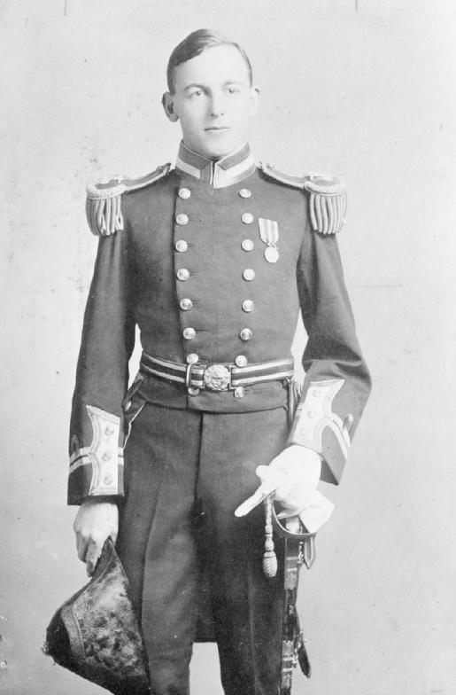 Portrait of Captain Frederick Thornton Peters, HMS WALNEY, awarded the Victoria Cross for his part in Operation RESERVIST, an attempt to capture Oran Harbour, Algeria and prevent it being put out of action by its Vichy French Garrison during the Allied landings in North Africa, 8 November 1942.